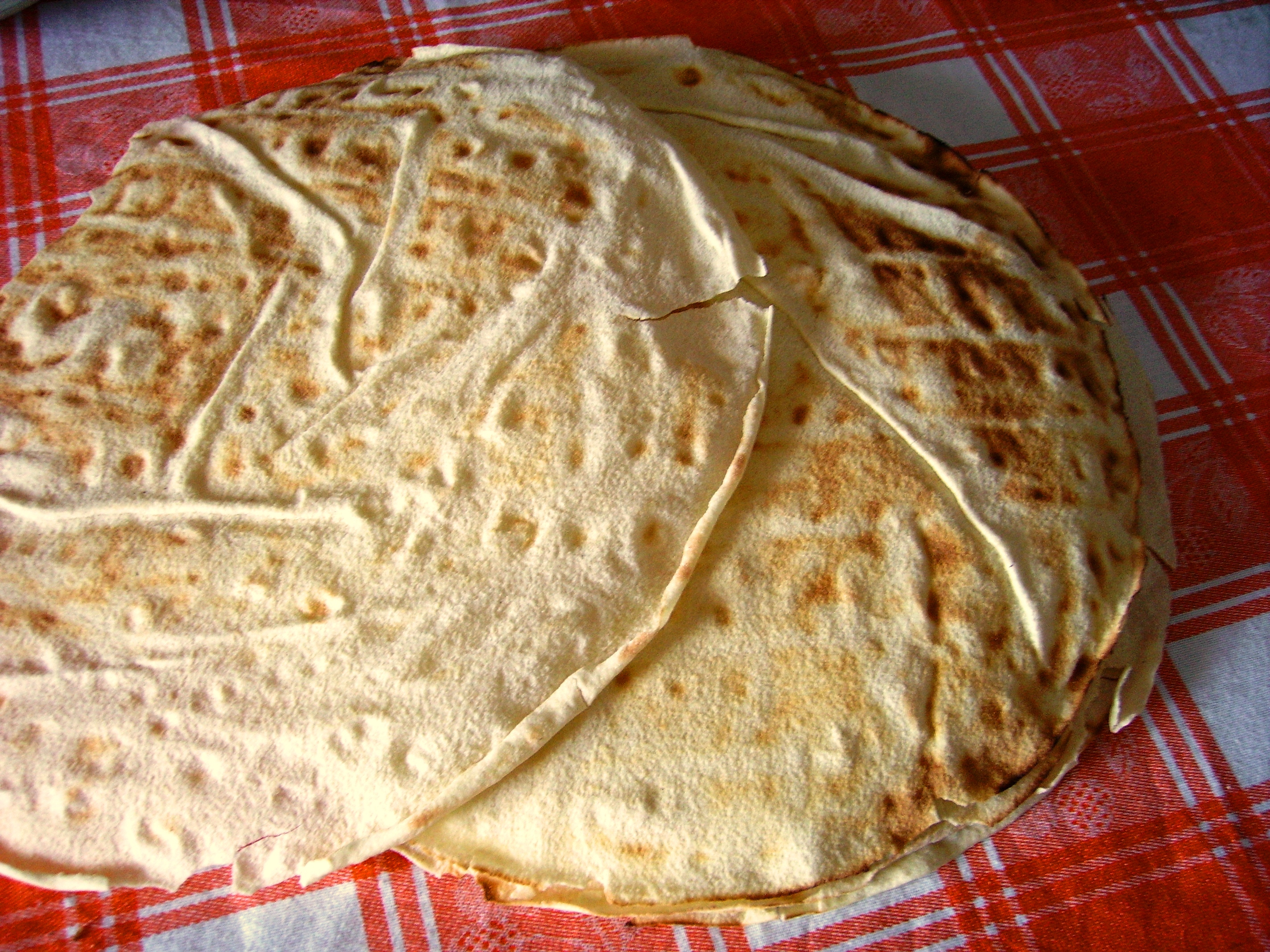 Pane carasadu, a tipical sardinian bread